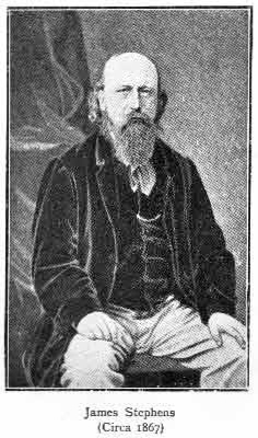 James Stephens, one of the founders of the Irish Republican Brotherhood circa 1867